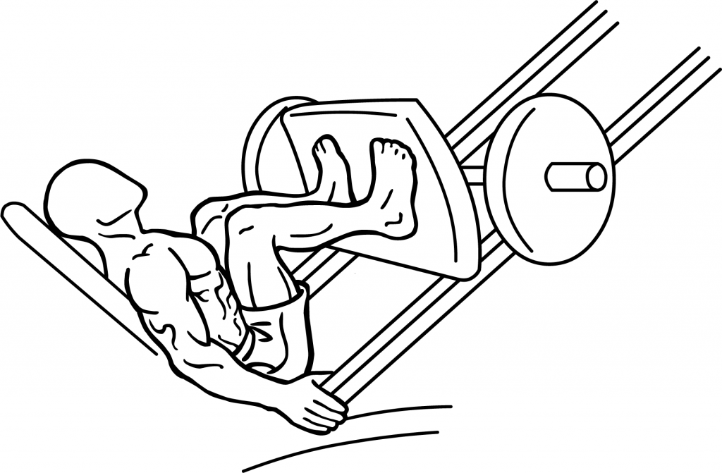 an exercise of thigh